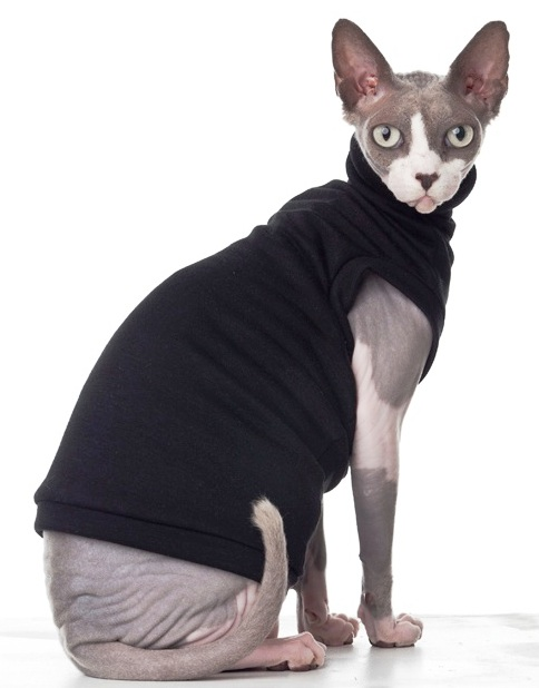 sphynxcatwear is a company that exclusively creates a line of practical and stylish clothing that keeps the Sphynx breed warm.